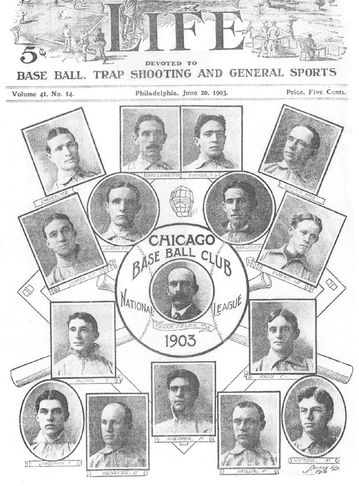 1903 Chicago Cubs